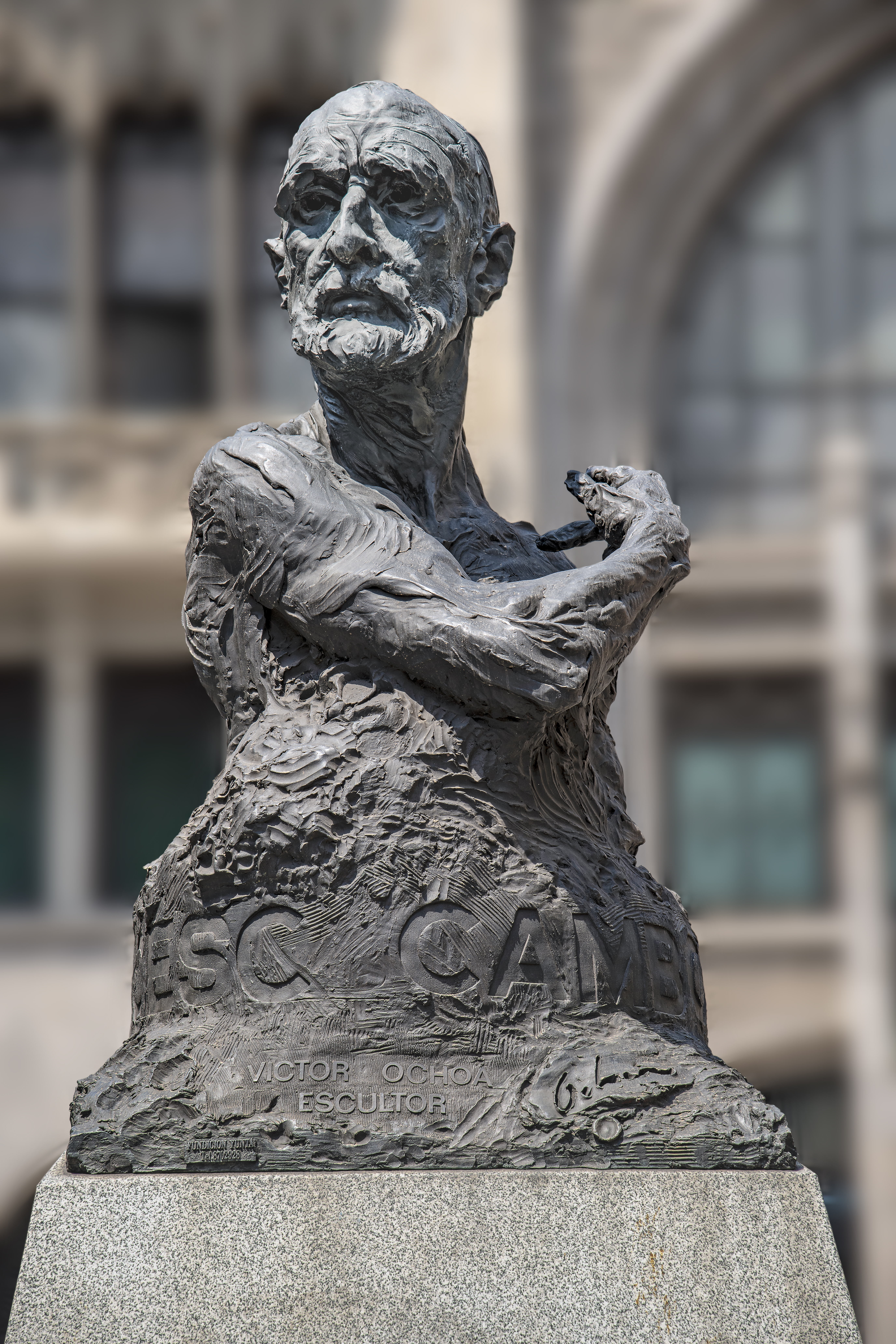 To Francesc Cambó by Victor Ochoa, Via Laietana, Barcelona.